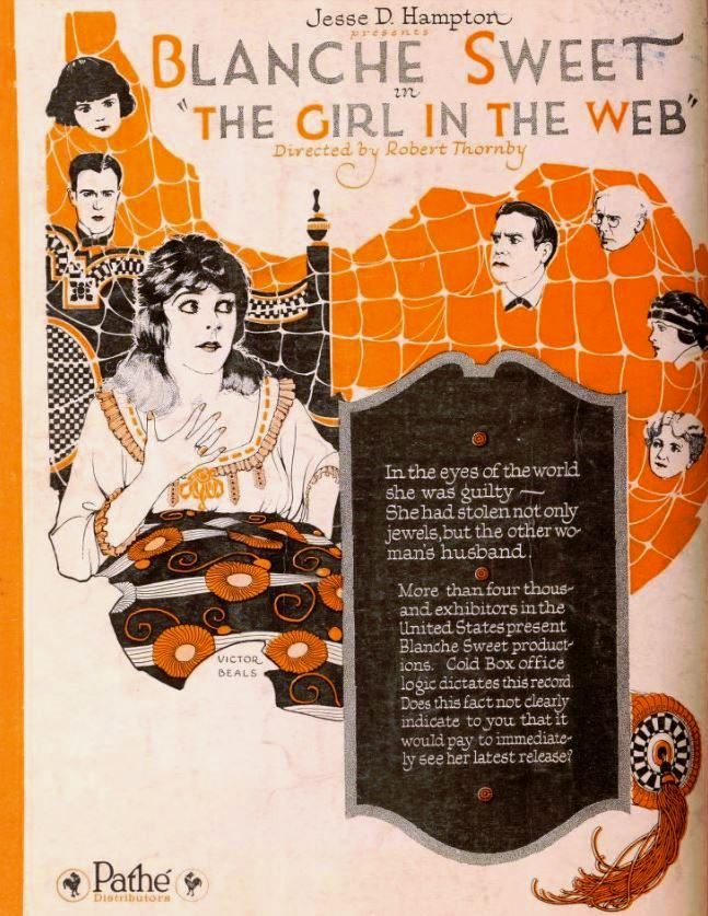 Advertisement for the American mystery film The Girl in the Web (1920) with Blanche Sweet, on page 116 (back cover) of the August 21, 1920 Exhibitors Herald.